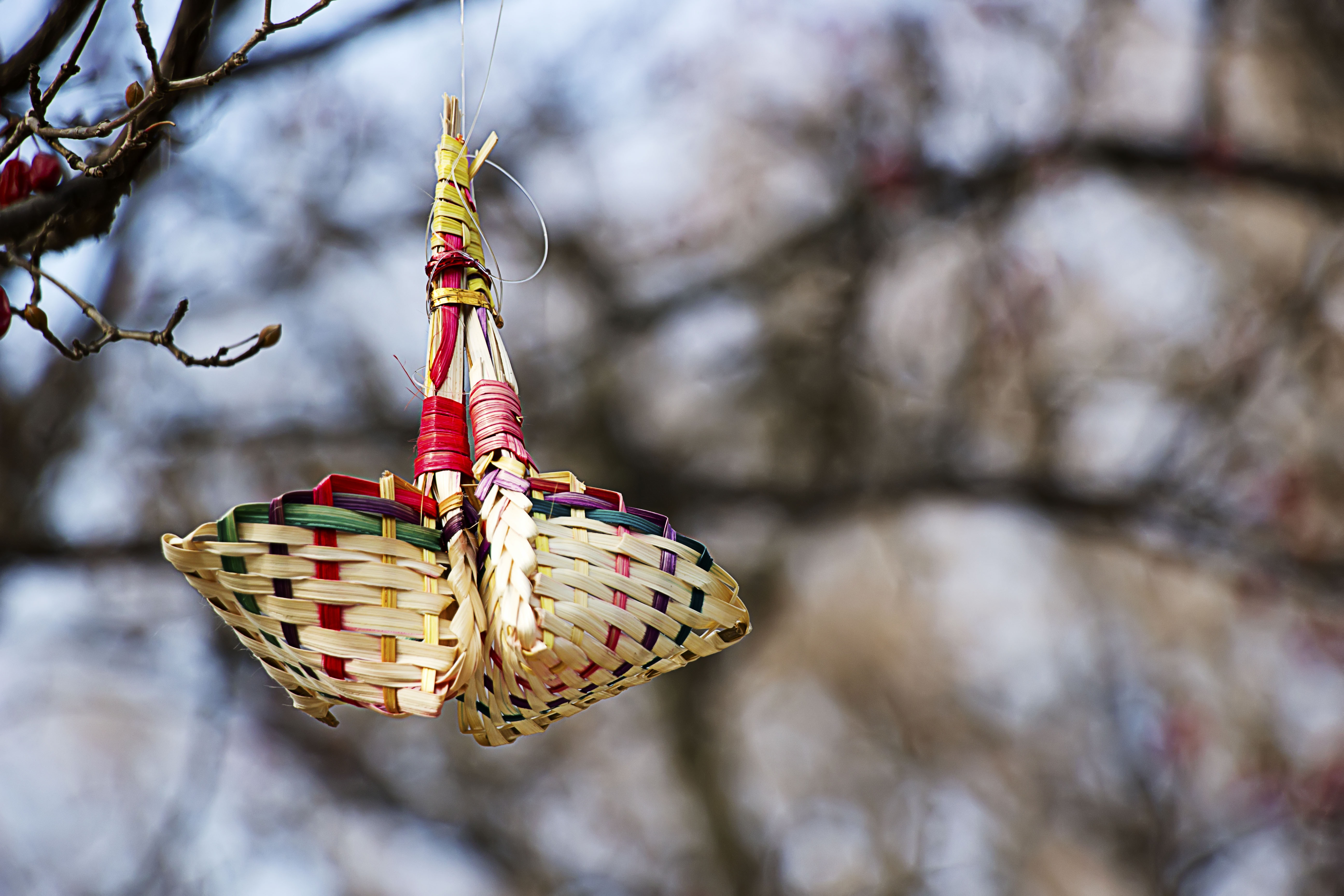 Bokjori